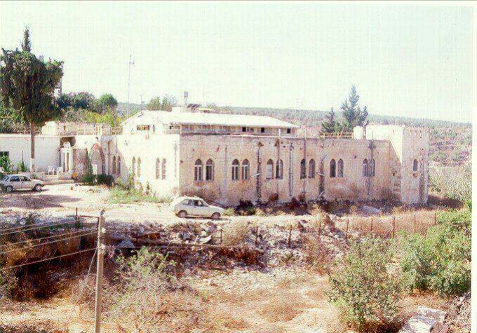 Ottoman Governance Building in Salfit, The building was destroyed in 2000 during the second intifada